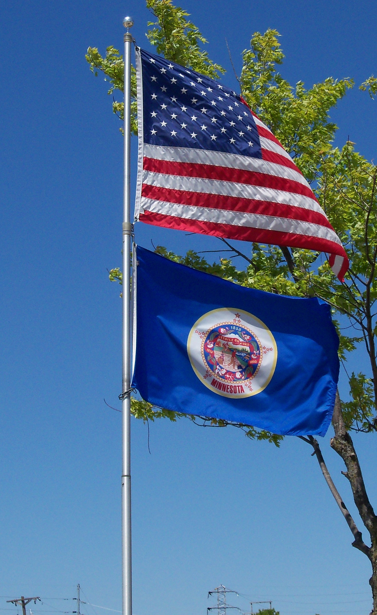 Flag of the United States and Flag of Minnesota. Taken in Northfield, Minnesota, USA.